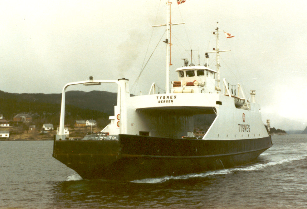 MF Tysnes, built 1970.